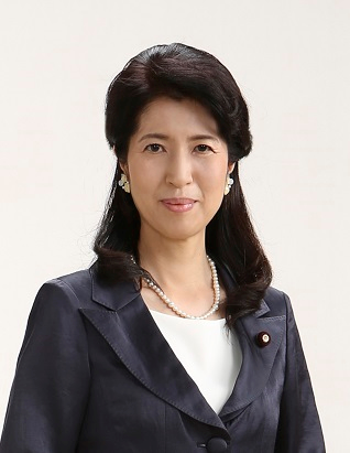 Ueno Michiko was inaugurated as State Minister of Education, Culture, Sports, Science and Technology on September, 2019